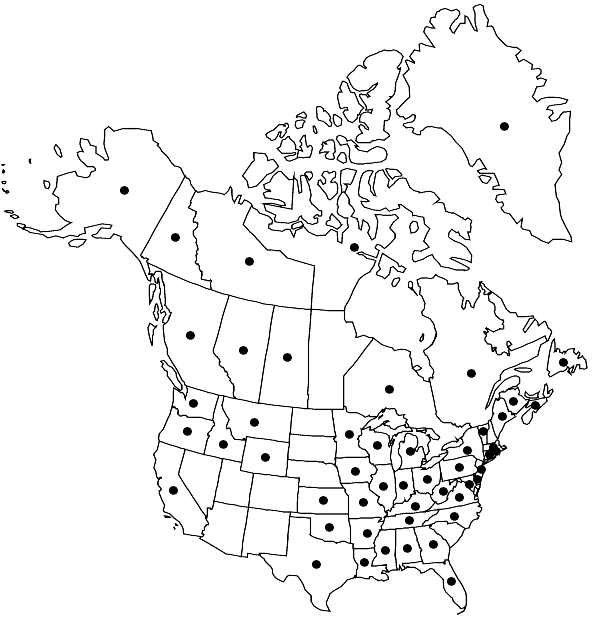 Image shows where one may find Fissidens adianthoides in North America.